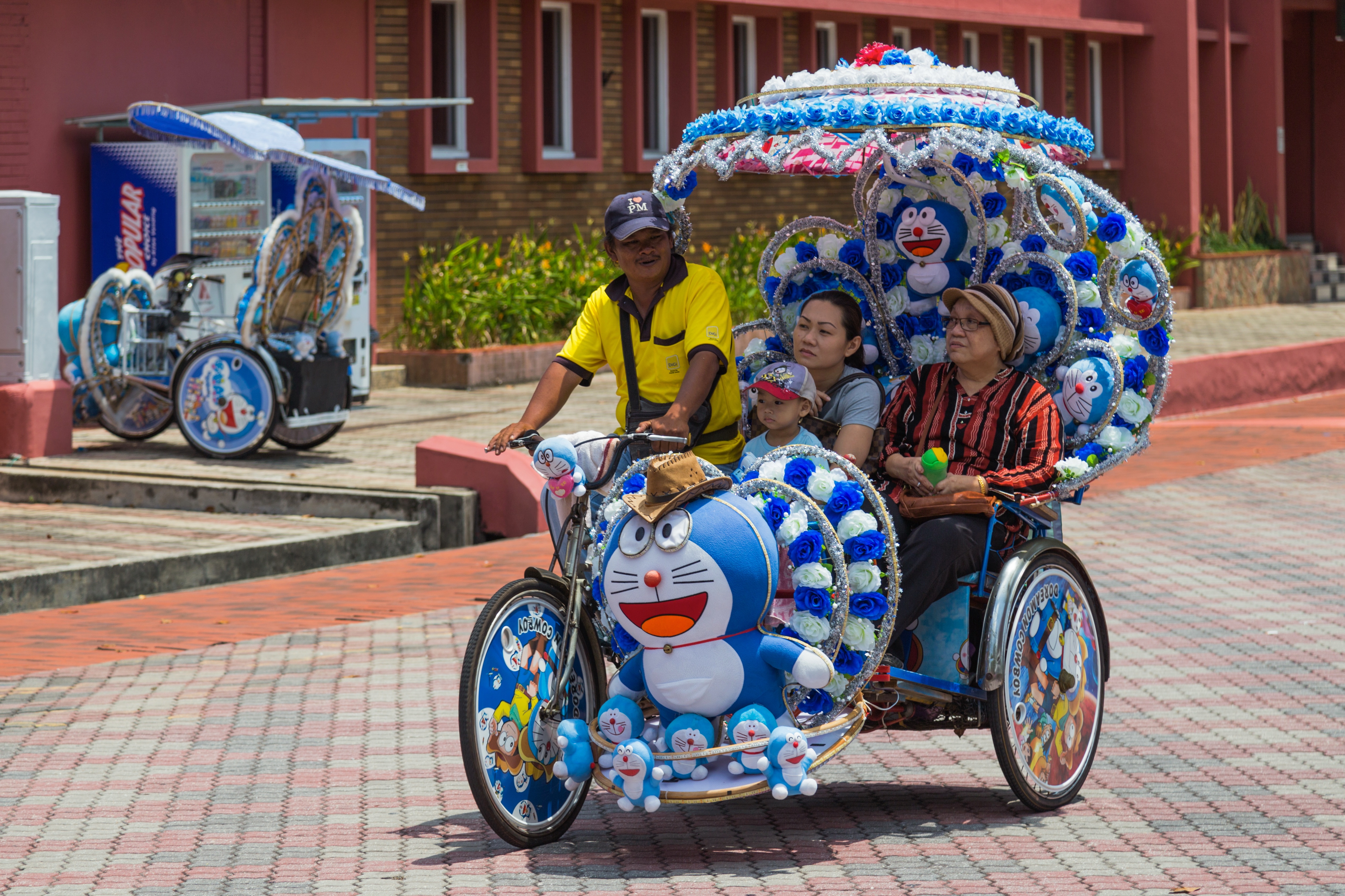 Colourful cycle rickshaw. Malacca City, Malacca, Malaysia.